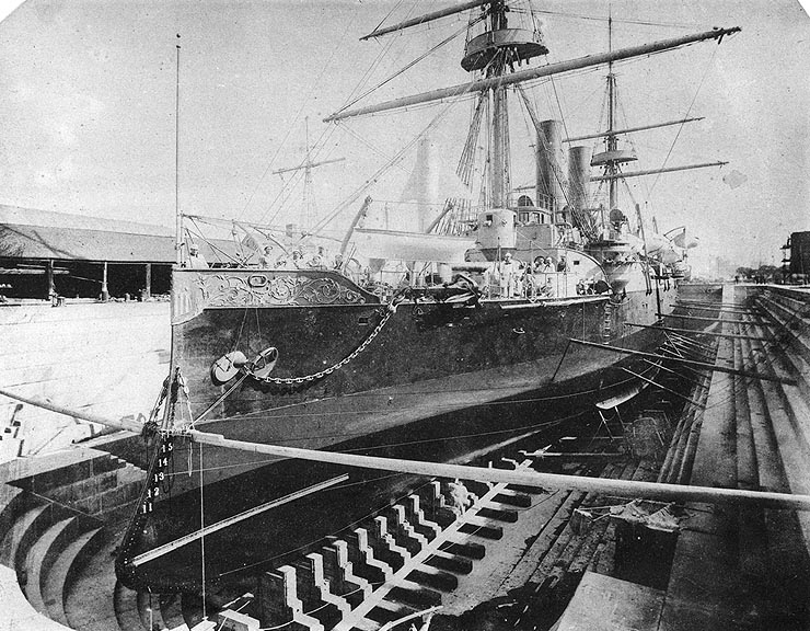 The USS Boston in drydock at the New York Navy Yard, Brooklyn, New York, 1888. Note fancy scrollwork on her bow bulwark, and reinforcing strip on the side of her ram bow. Original caption: “Photo # NH 56526 USS Boston in dry dock at the New York Navy Yard, 1888” — removed caption